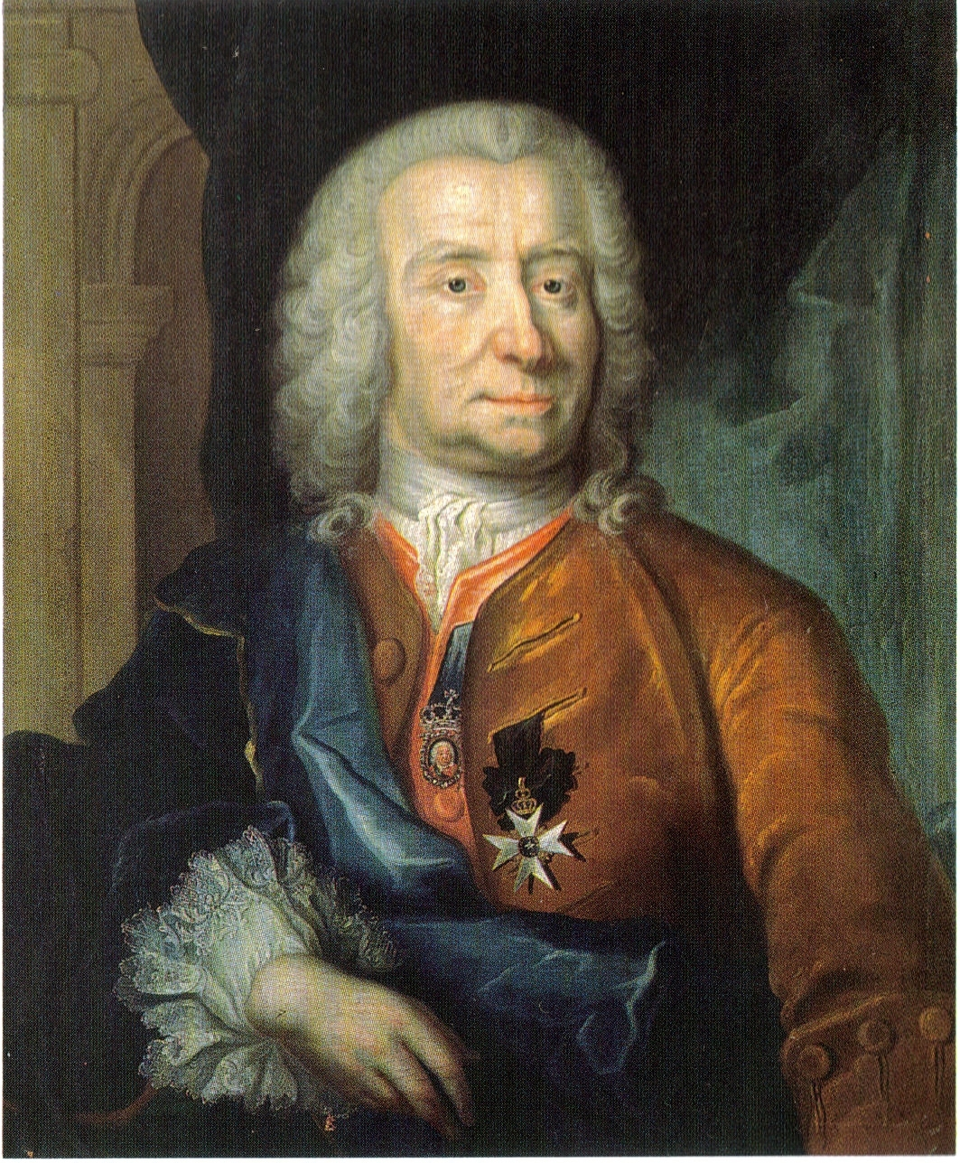 Colin Campbell (1 November 1686 – 9 May 1757) was a Scottish merchant and entrepreneur who co-founded the Swedish East India Company and was Swedish King Frederick I's first envoy to the Emperor of China. Campbell is depicted wearing the cross of the Nordstjärneorden (Order of the Polar Star) which was conferred on him in 1753, and a crowned miniature of Frederick I. A contemporary replica of the portrait (in the collection of the Nationalmuseum since the 1860s and now exhibited at Gripsholm Castle) bears a painted cartouche with text stating that the portrait depicts Campbell in his 70th year (that is, in 1756), and describing his efforts in establishing the Swedish East India Company.